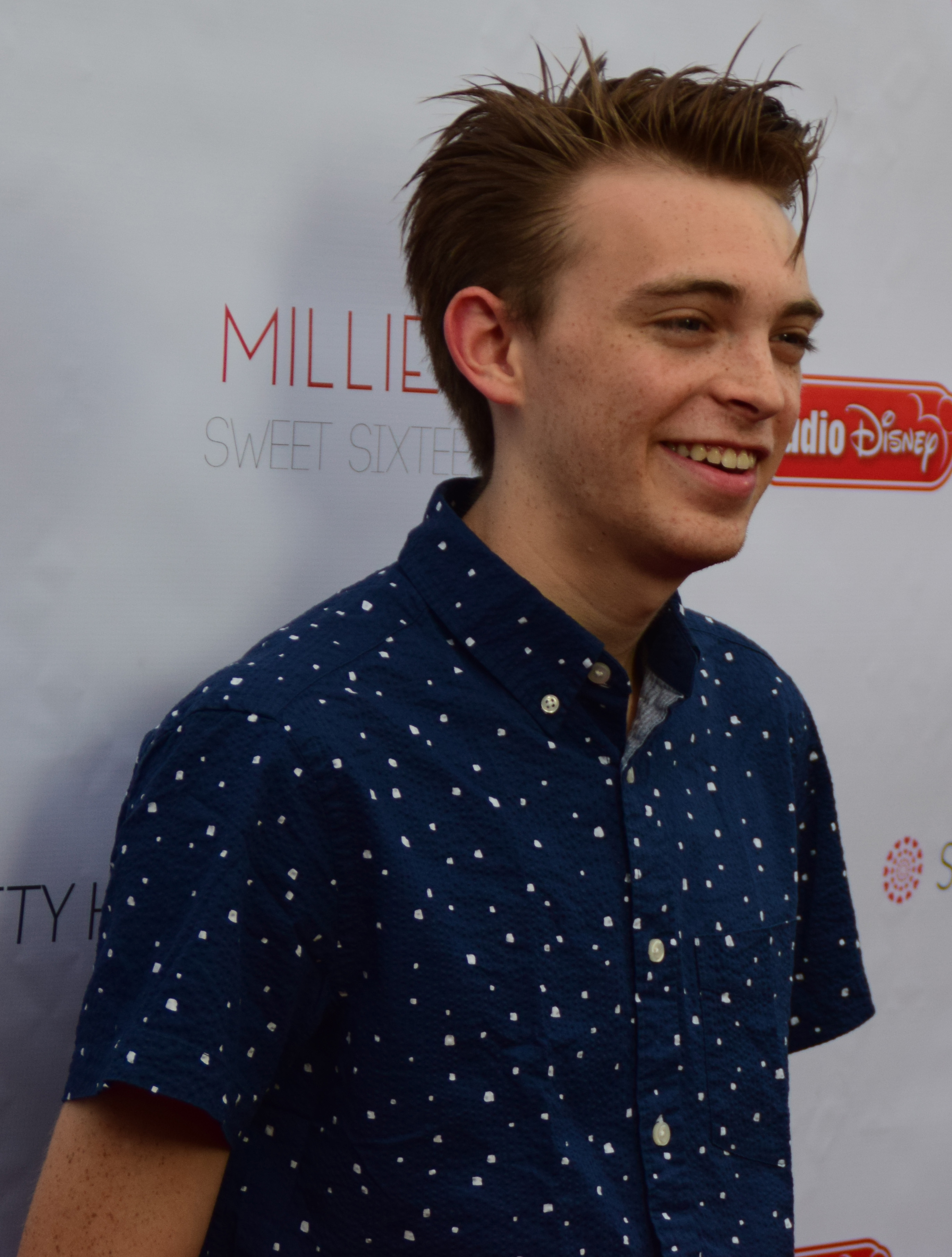 Mingle Media TV and our Red Carpet Report team with host, Denise Salcedo, were invited to come out to Sweet Suspense member Millie Thrasher's Sweet 16 Party with Radio Disney and her celebrity friends at the Hotel Sofitel in Hollywood. Get the Story from the Red Carpet Report Team, follow us on Twitter and Facebook at: About Sweet Suspense X Factor fan favorite girl group, Sweet Suspense, is an all-female pop power trio with Simon Cowell as their mentor off the hit series. Since 2013 the girls have been going full throttle proving that they are here to stay and are truly ready to be superstars. Since their time on The X Factor (they were in the top 12!) the girls have worked with some of the best producers in the business and have been busy recording new music and establishing themselves as positive role models for their fans. Fresh off premiering the music video for their single “Here We Go Again,” and being selected as one of the iHeart Radio Macy’s “Rising Stars,” Sweet Suspense recently released a music video for the female-empowering version of Max Schneider’s song “Gibberish.” Follow Millie on Twitter For more of Mingle Media TV’s Red Carpet Report coverage, please visit our website and follow us on Twitter and Facebook here: Follow our host, Denise Salcedo on Twitter at